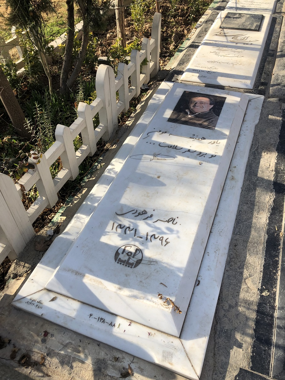 Beheshte Zahra Cemetery